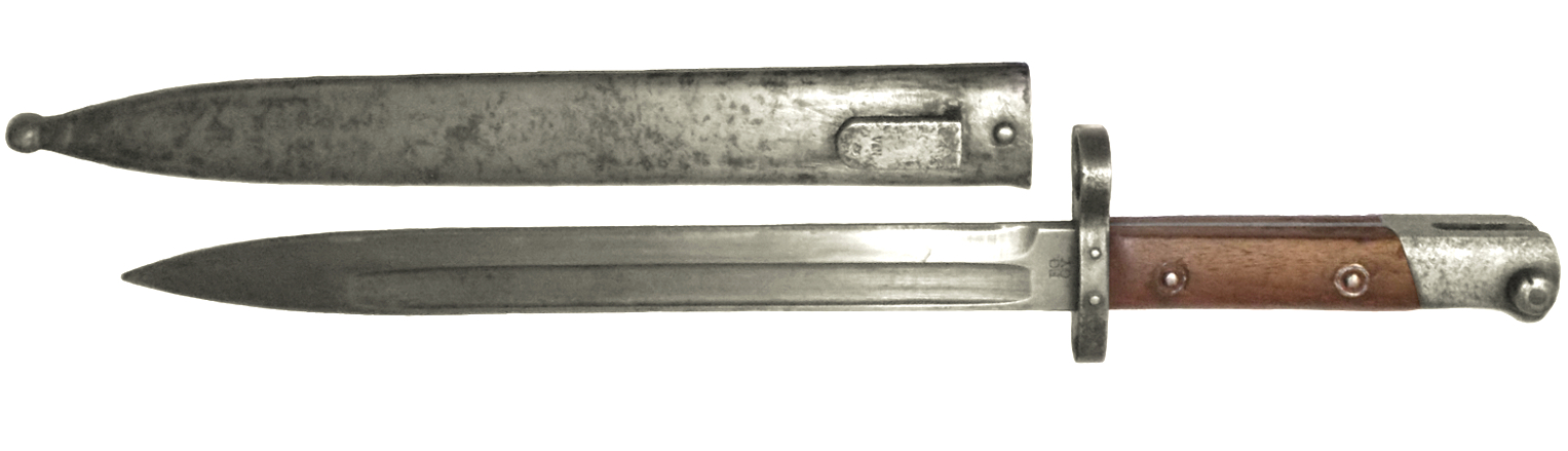 Mannlicher M1890/95 Bayonet for M1888 and M1890 Mannlicher rifles Made with parts of Mannlicher M1895 bayonet